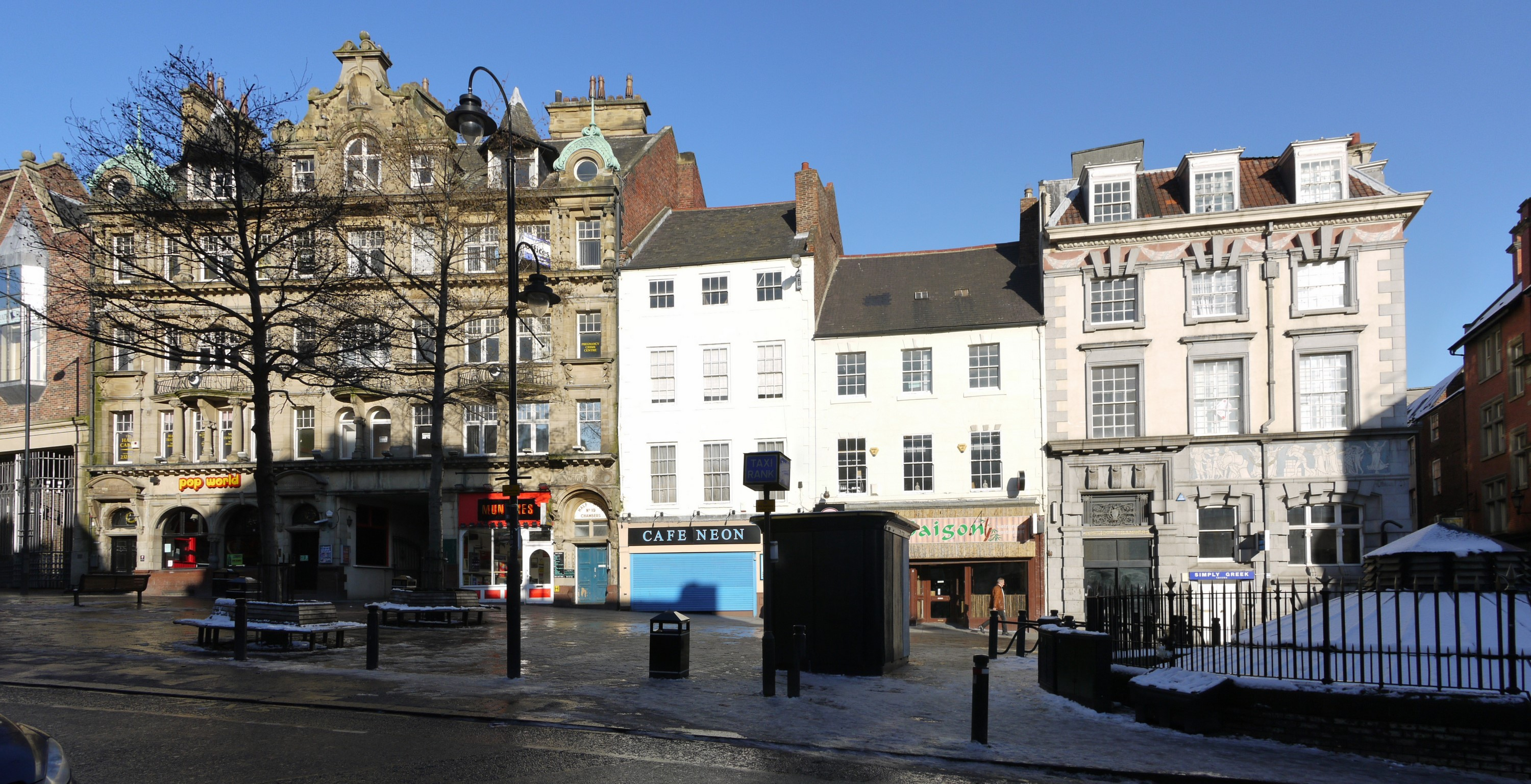 Bigg Market